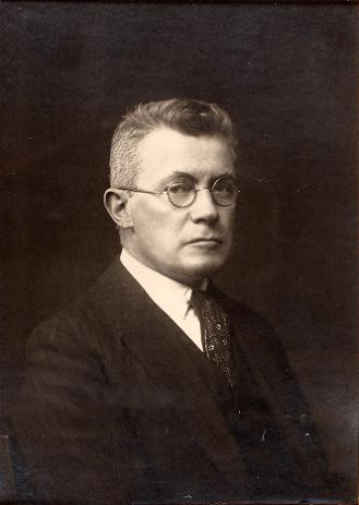 Durk van Blom (1877-1938), professor of Law at Leiden University (the Netherlands)